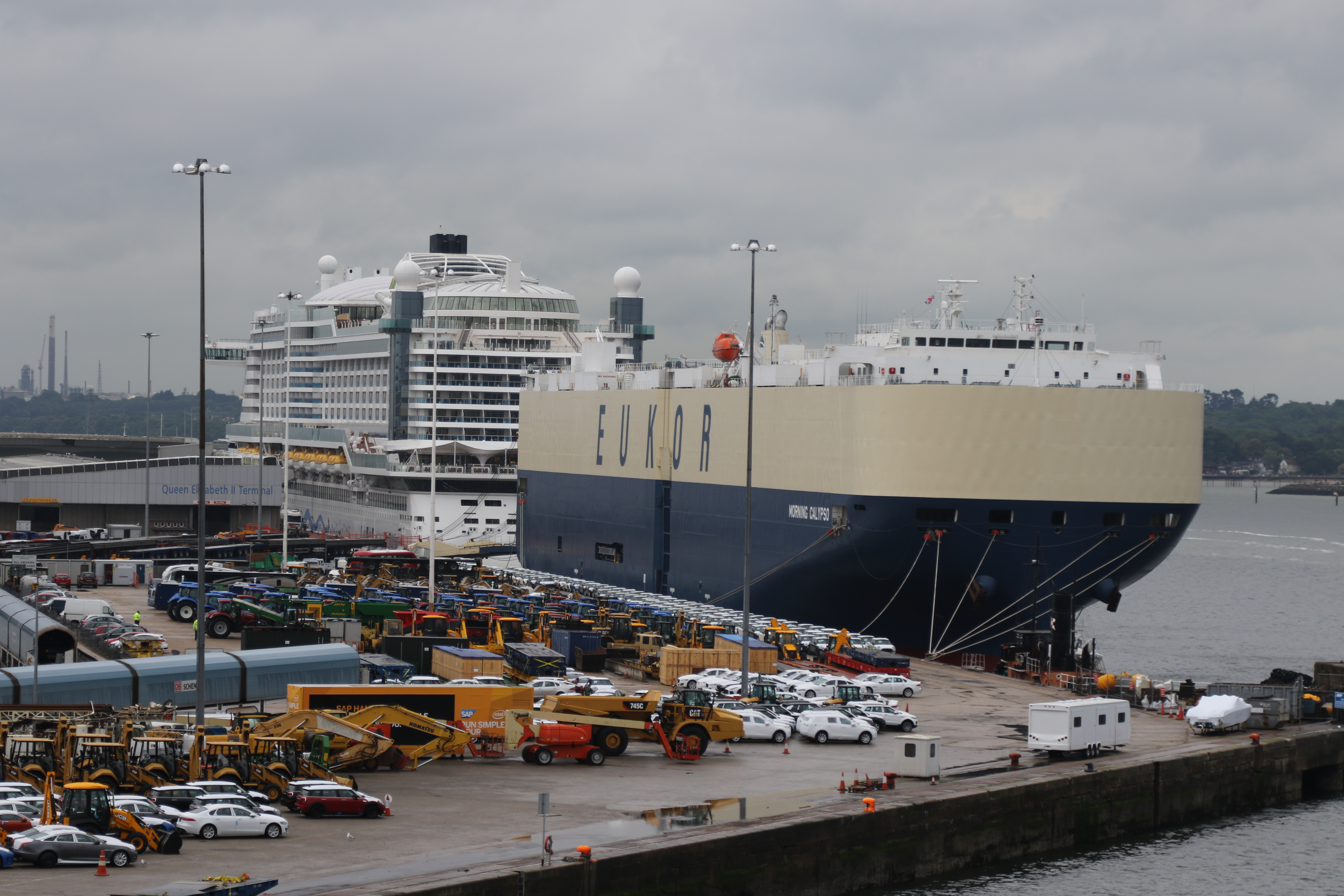 Morning Calypso in Southampton Harbour